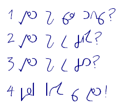 Four essential travel phrases in Quickscript: 1) Where is my room? - 2) Where is the beach? - 3) Where is the bar? - 4) Don't touch me there!